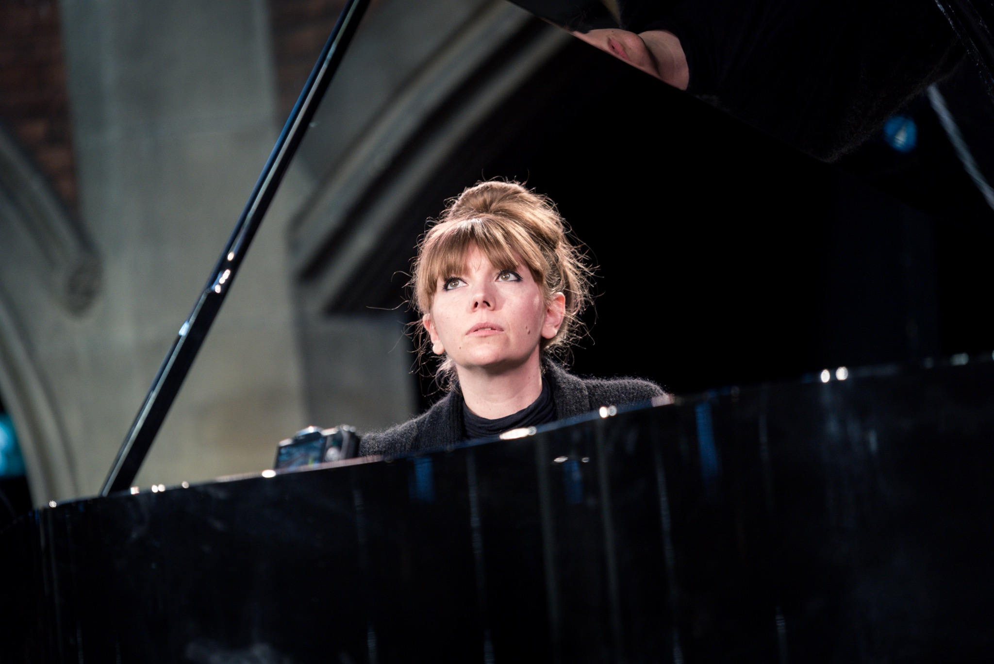 Poppy Ackroyd